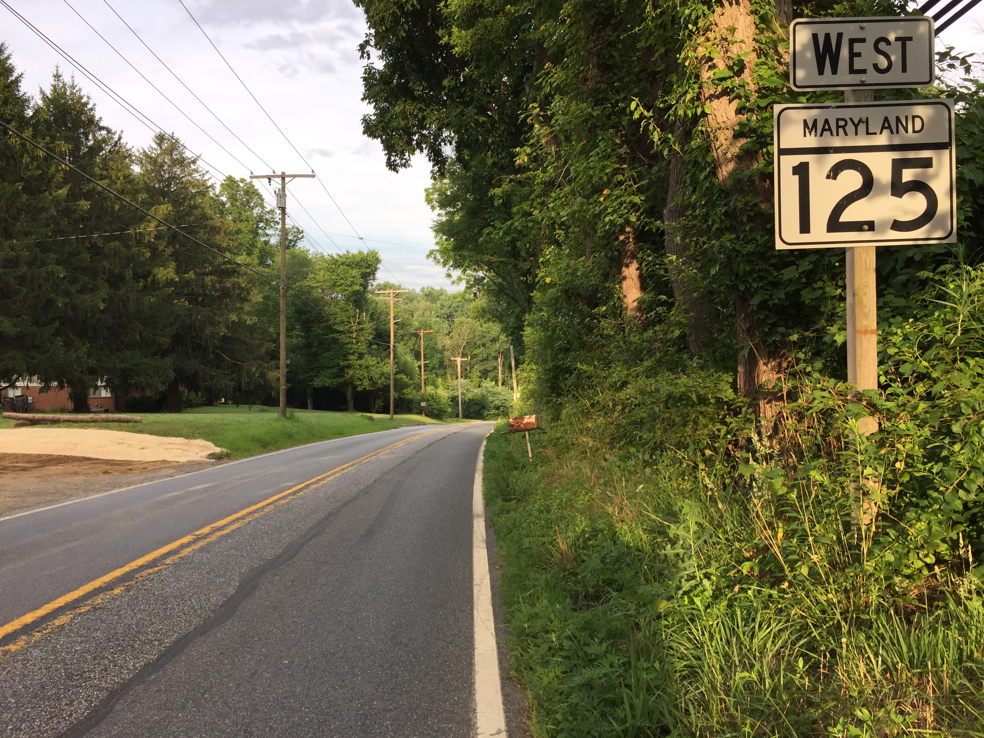 View west along Maryland State Route 125 (Old Court Road) near Brice Run in Randallstown, Baltimore County, Maryland